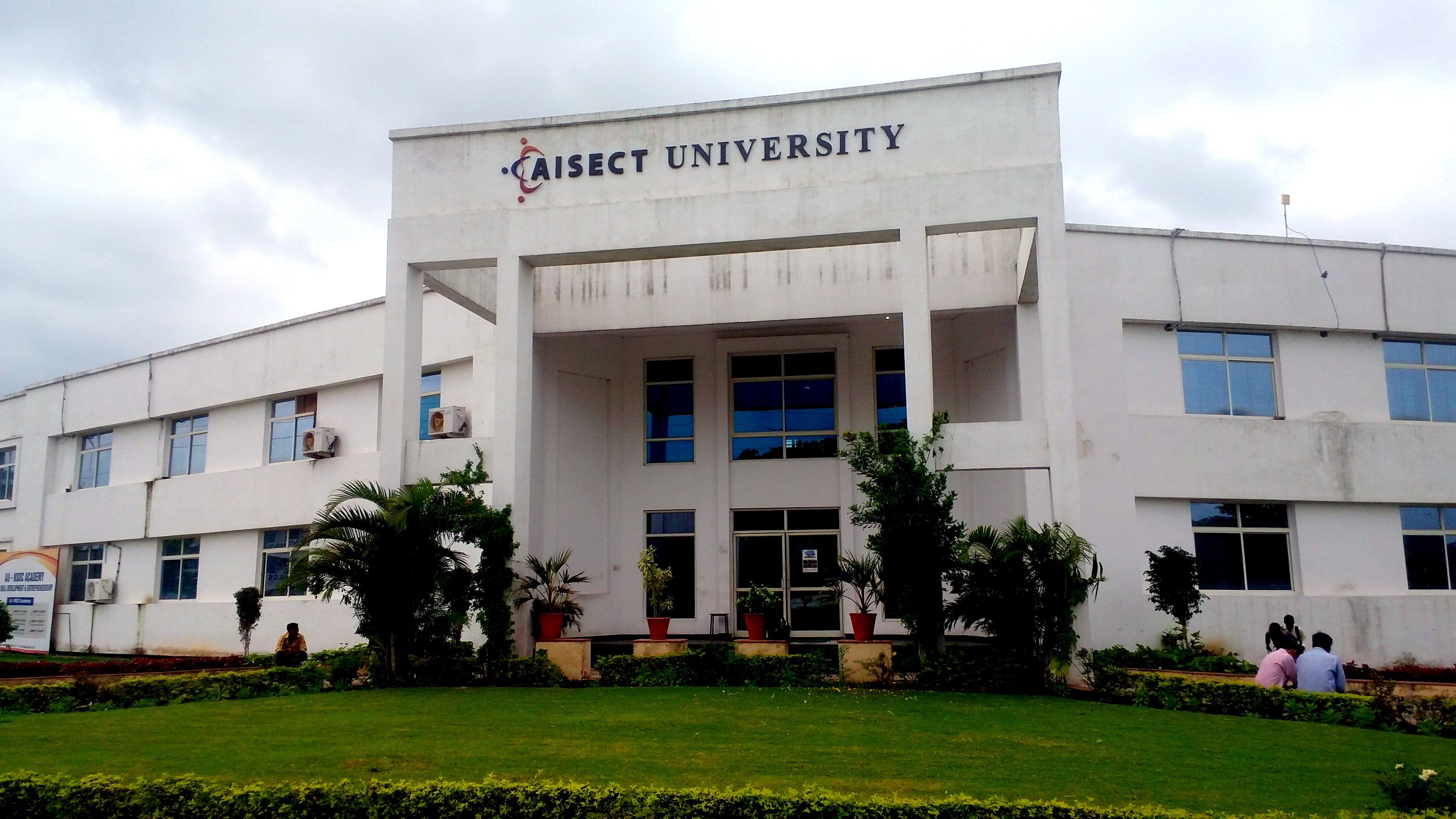 Main Administrative Block, AISET University